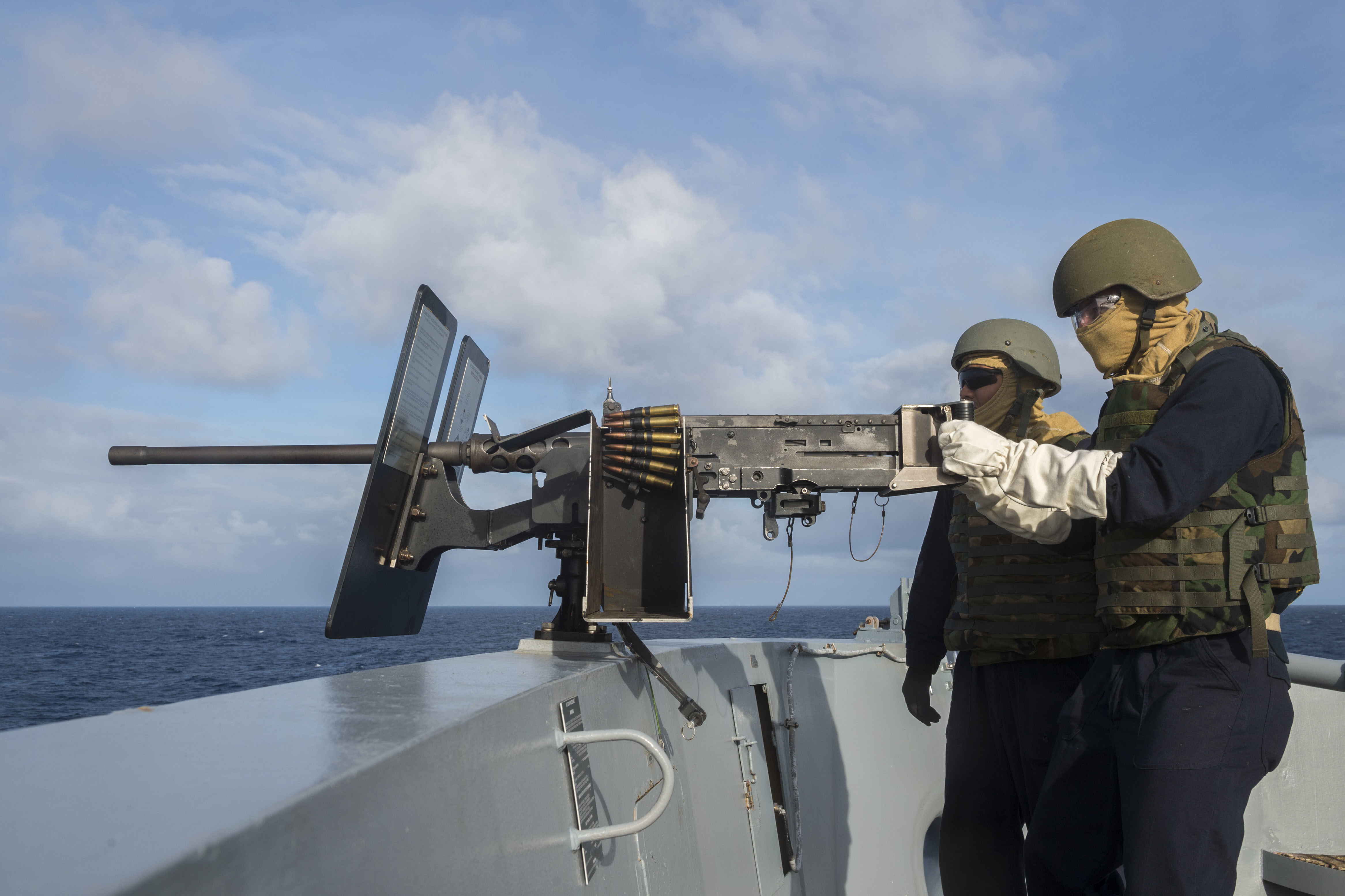 170624-N-ZL062-008 CORAL SEA (June 24, 2017) Midshipmen 2nd Class Gage Murphy, from Hesperia, Calif., fires an M240B machine gun on the forecastle of the amphibious transport dock ship USS Green Bay (LPD 20) during a drill that tested the crewmember’s ability to defend the ship from an attack. Green Bay, part of the Bonhomme Richard Expeditionary Strike Group, is operating in the Indo-Asia-Pacific region to enhance partnerships and be a ready-response force for any type of contingency. (U.S. Navy photo by Mass Communication Specialist 3rd Class Sarah Myers/Released)